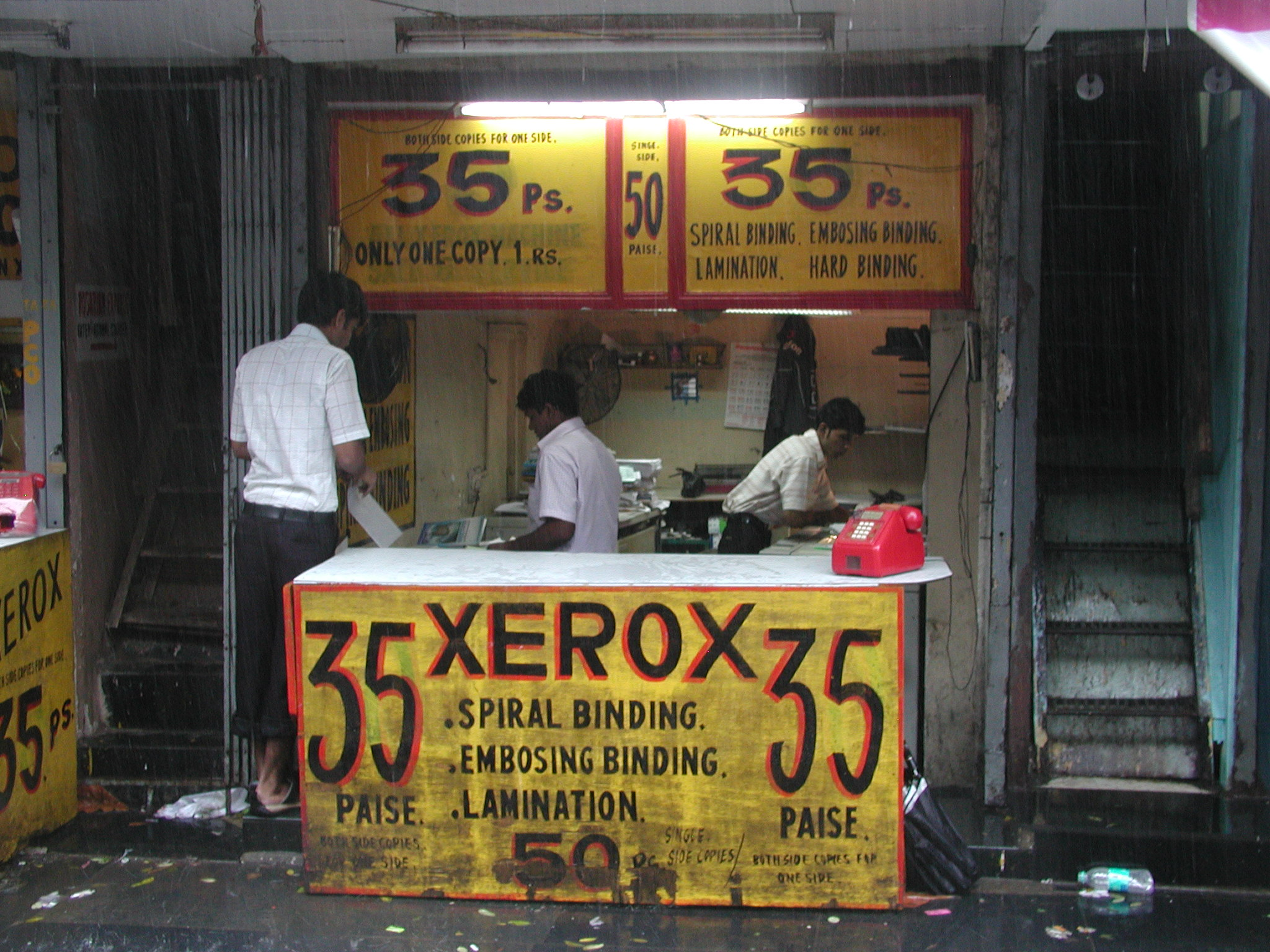 Xerox (Photocopier) stand in Mumbai (Bombay), India